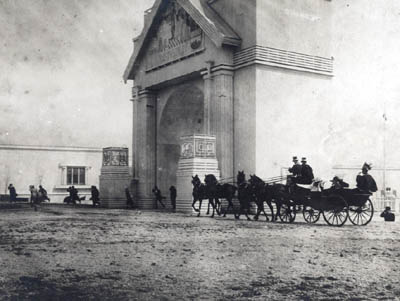 Fra åbningsdagen den 18. maj. Kareten med de kongelige kører fra solennitetssalen til industrihallen.